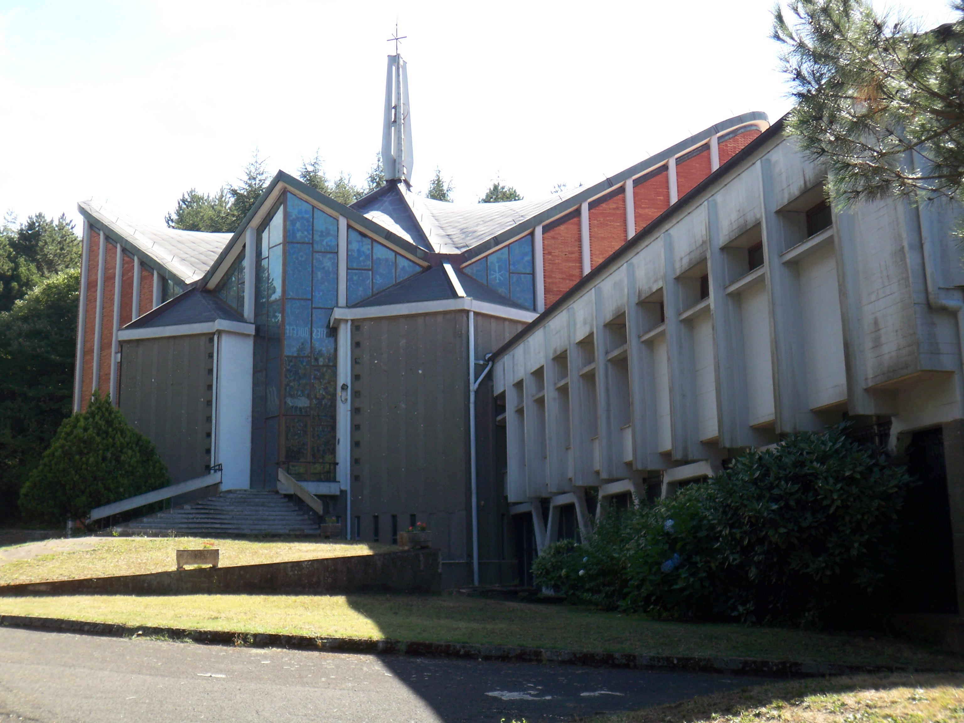 Exterior view of the chapel "S. Giovanni Battista" of the Missionari Verbiti at Nemi, Italy. (Built 1960-62 by Silvio Galizia)